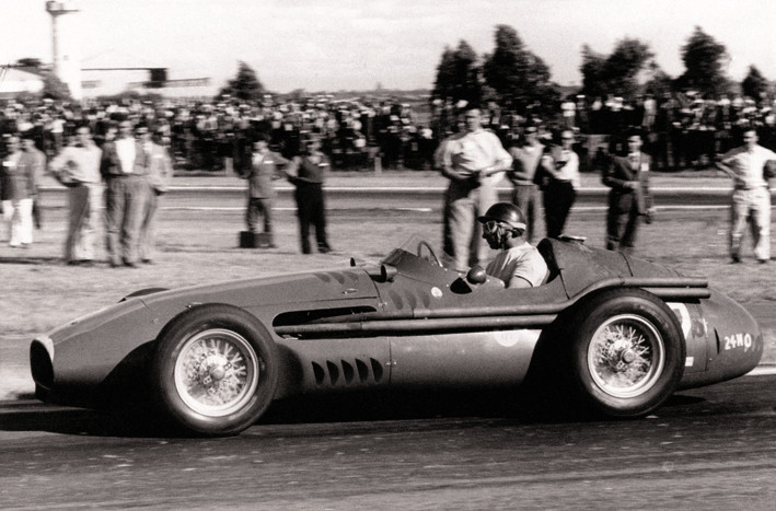 方吉奥驾驶250F为玛莎拉蒂赢回的第一个世界冠军